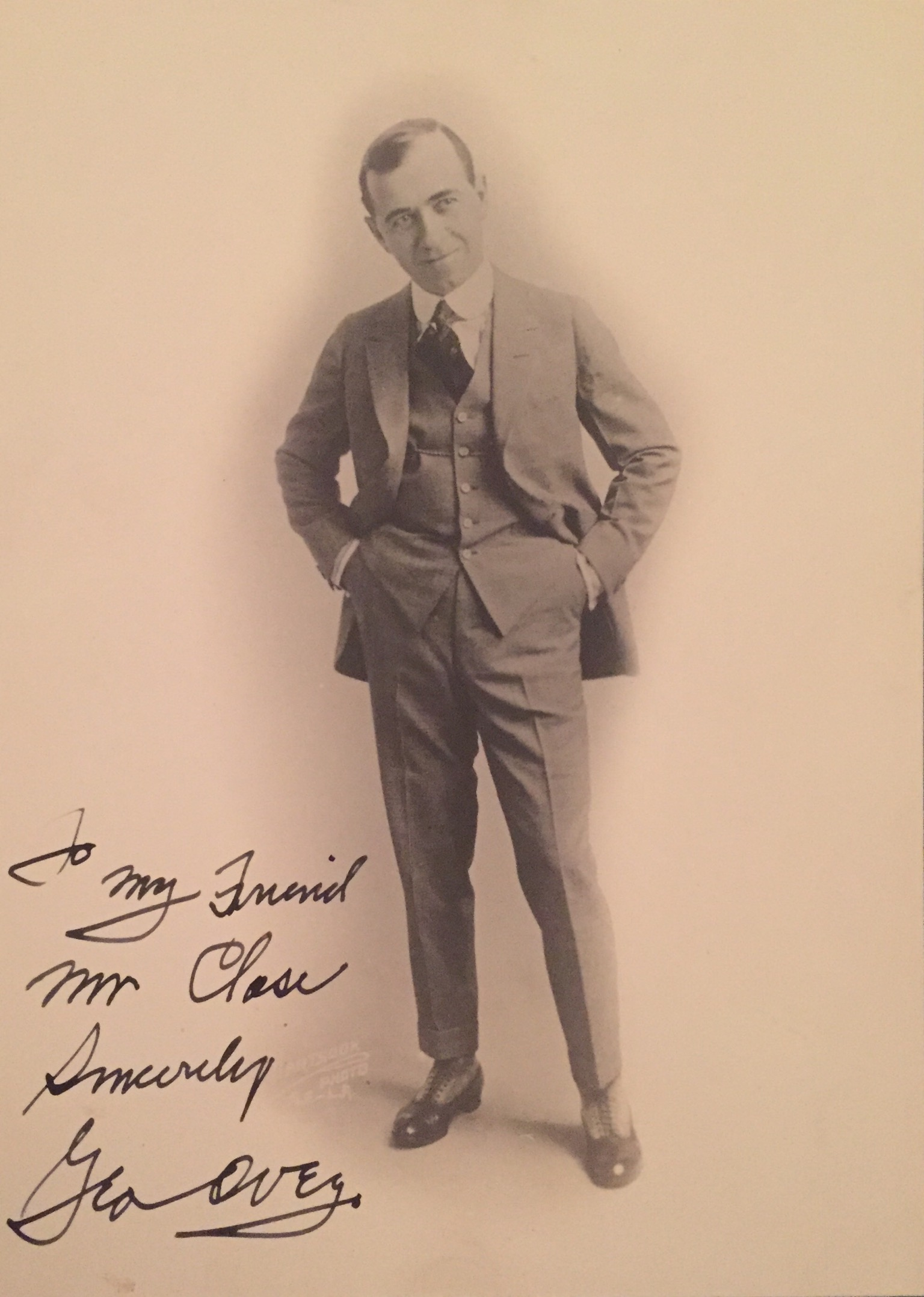 George Ovey inscribed photo in street clothes